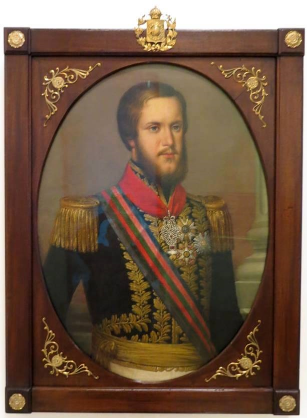 Potrait of Pedro II of Brazil, oil painting by Louis-Auguste Moreaux, 1845 (Pinacoteca do Estado do São Paulo).